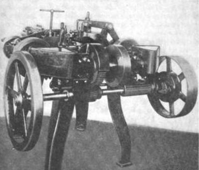 A four slide machine. The original caption is: "Fig 9. Typical Four-slide Wire-forming Machine shown from another Angle than in Fig. 6"